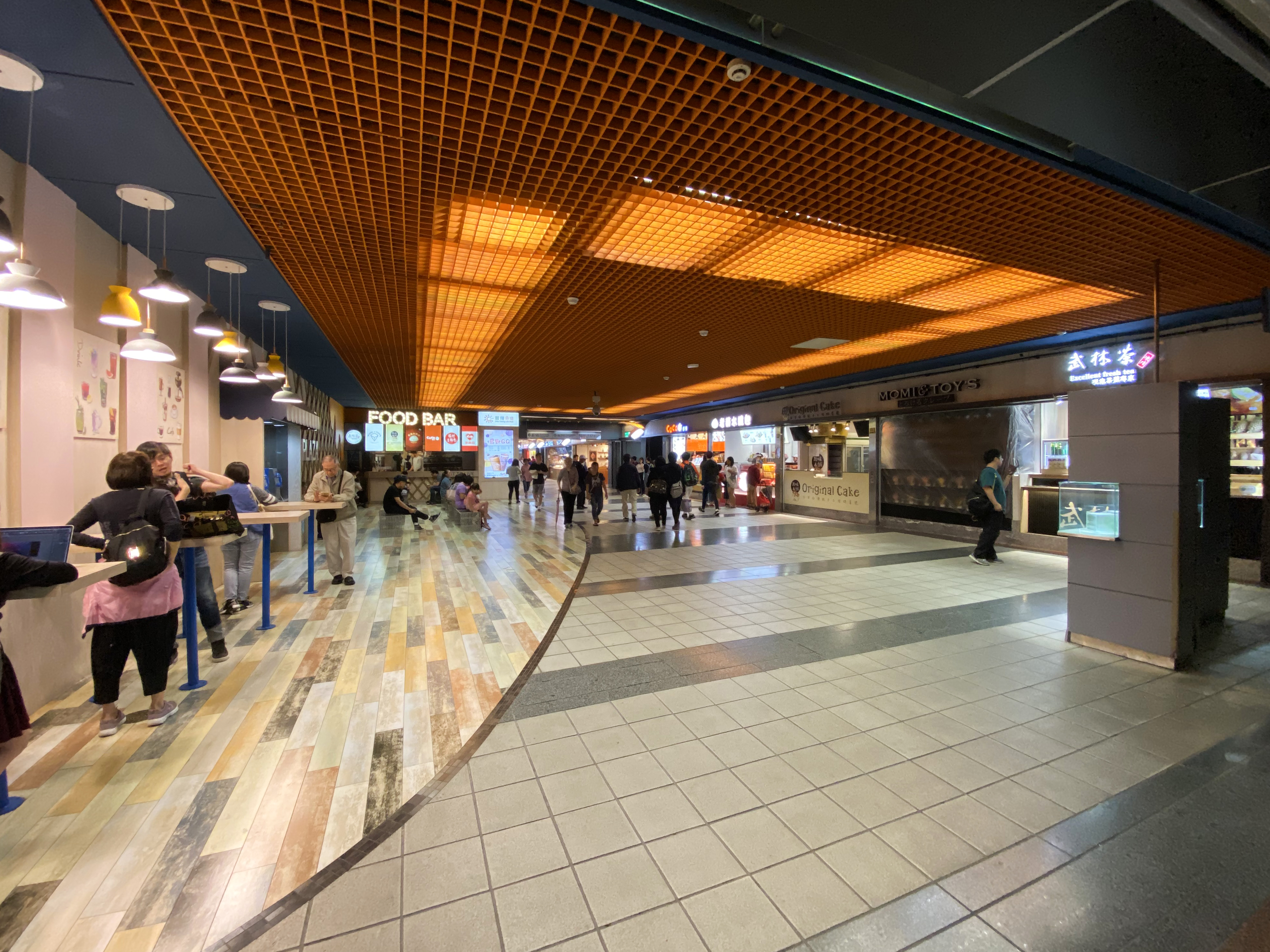 East Metro Mall Food Bar